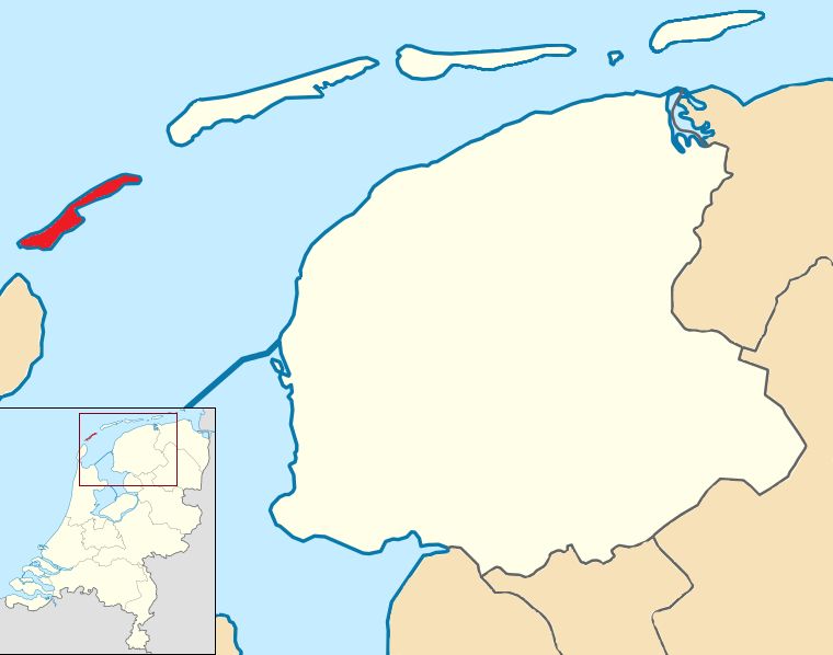 Vlieland, island and municipality in Friesland, Netherlands, 2018